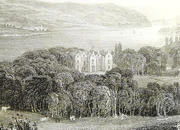 Engraving circa 1830 titled "Warleigh House, Devonshire, the seat of Walter Radcliffe Esq.". Engraved by William Le Petit after Thomas Allom, published by Fisher, Son & Co, London, circa 1830 in "Devonshire Illustrated in a Series of Views"[1]. Also published in Gray, Todd, The Art of the Devon Garden, Mint Press, Exeter, 21st c. Warleigh House is the historic manor house of Tamerton Foliot.